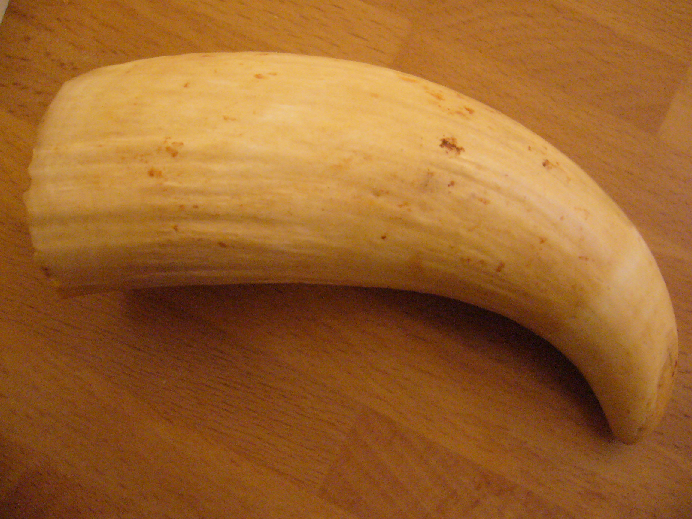 Physeter macrocephalus (Sperm Whale) tooth in a house in a Corunna, Galicia, Spain.